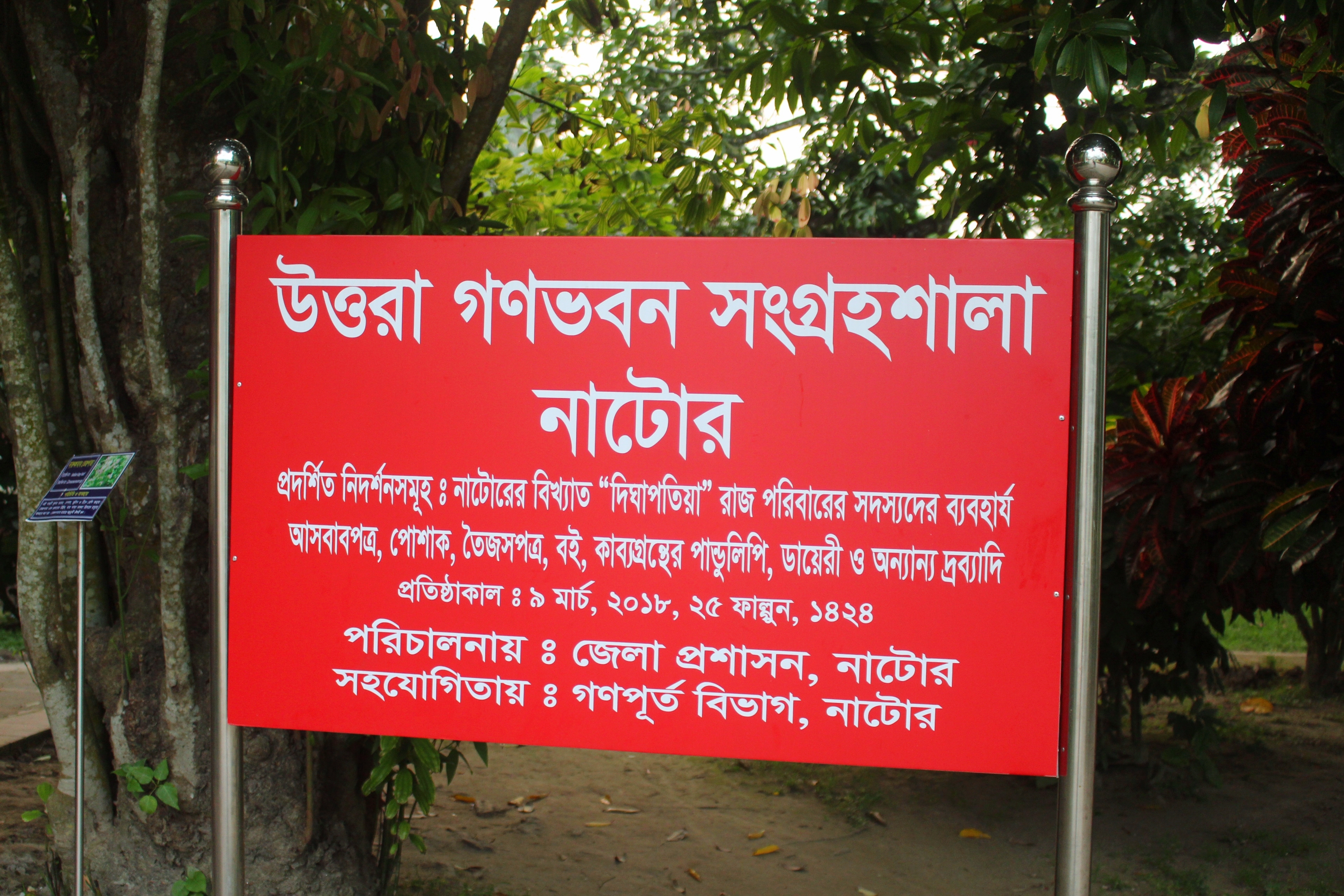 Uttara gonovaban Museum (banar)